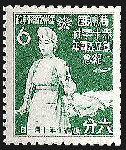 6Fen stamp of Manchukuò issued on october 1, 1943 to commemorate the 5th Anniversary of foundation of Manchukuò Red Cross Society